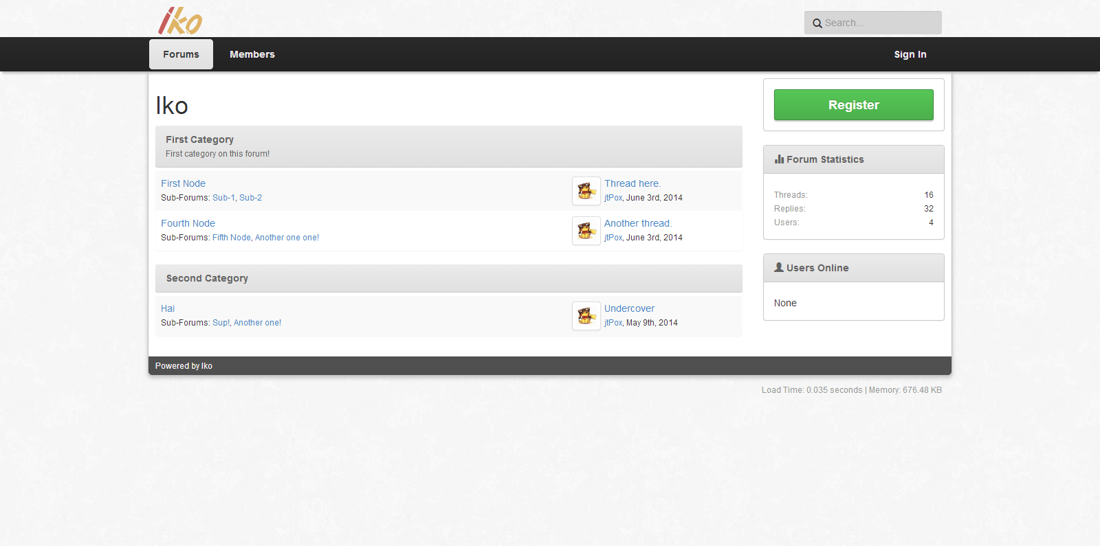 The default theme of Iko.